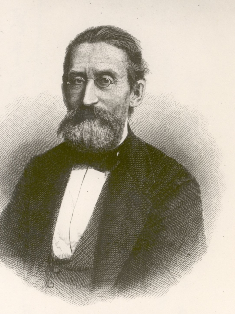 Picture of the Baltic-German linguist Franz Anton von Schiefner (1817–1879).